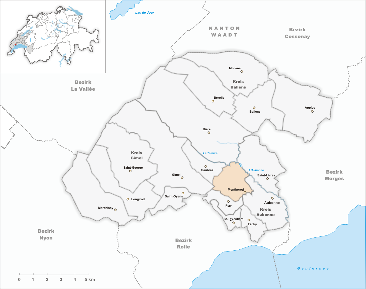 Municipality Montherod